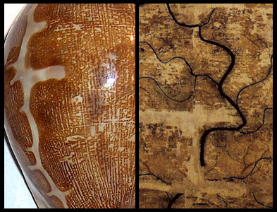 The color pattern of the shell of Leporicypraea mappa (synonym : Cypraea mappa )(left), compared to an ancient Chinese topographic map (right).